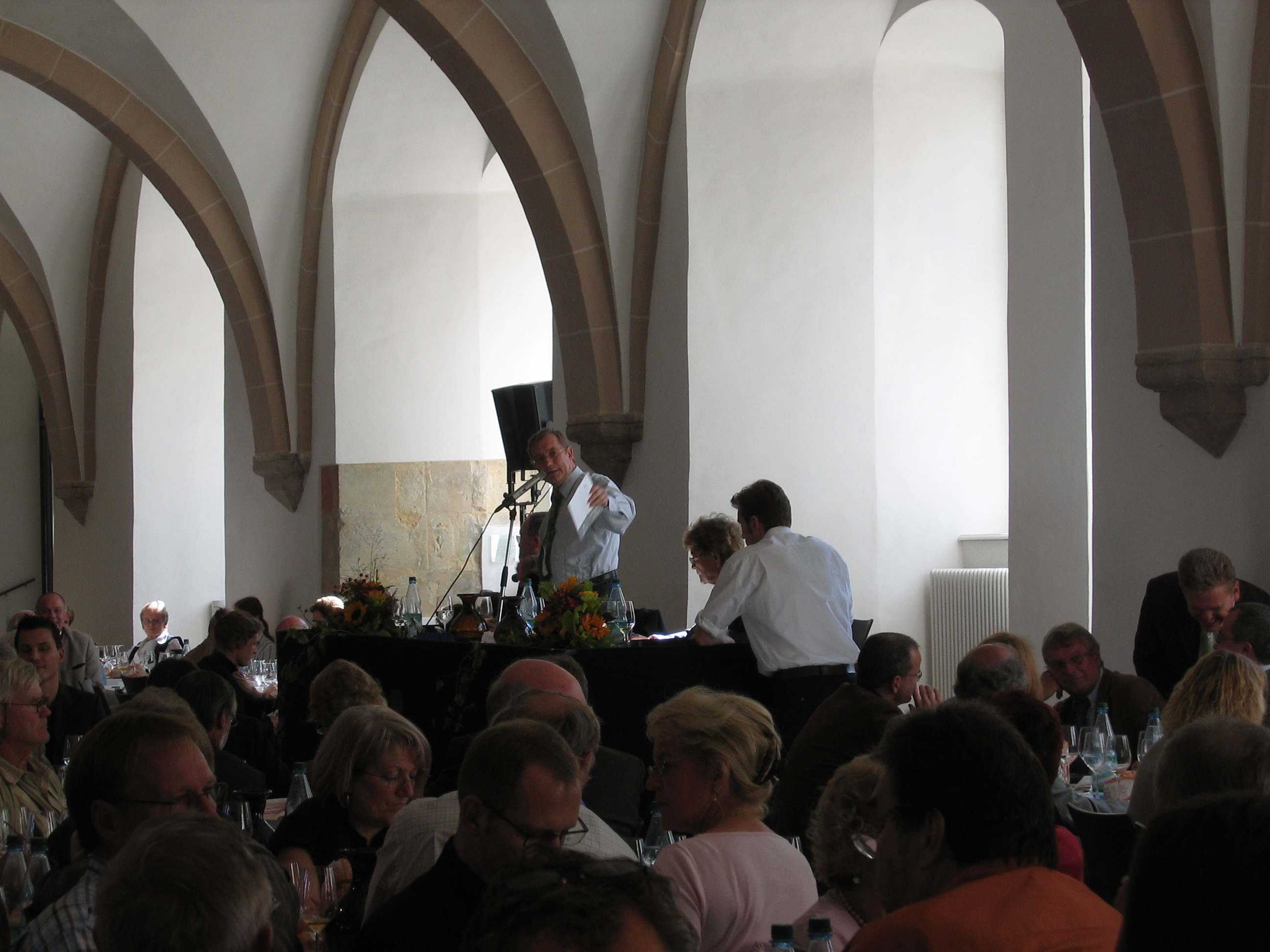 The 2007 VDP wine auction at Kloster Eberbach in Rheingau, with Prof. Dr. Leo Gros as auctioneer